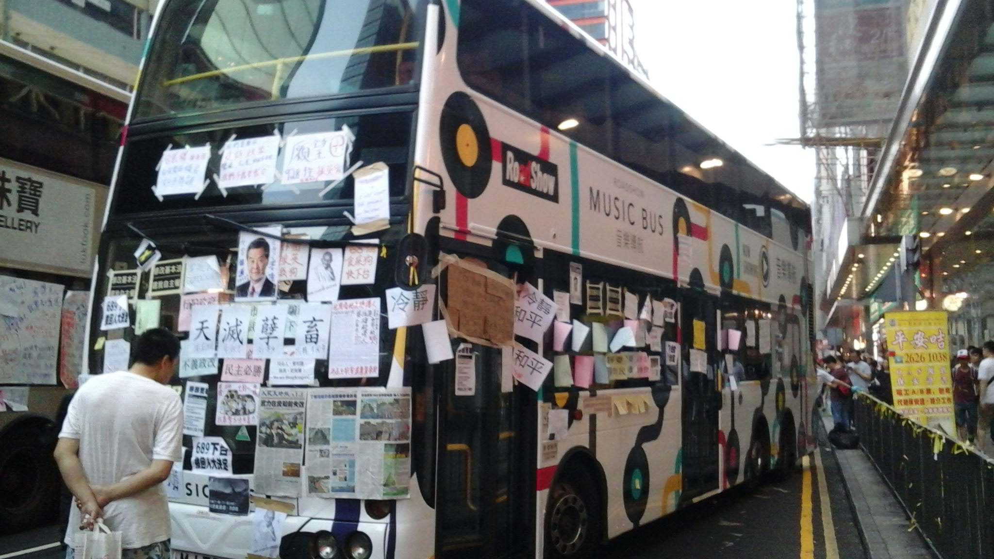 Messages supporting the 2014 Hong Kong protests for democracy cover a bus stranded on Nathan Road, Mong Kok.